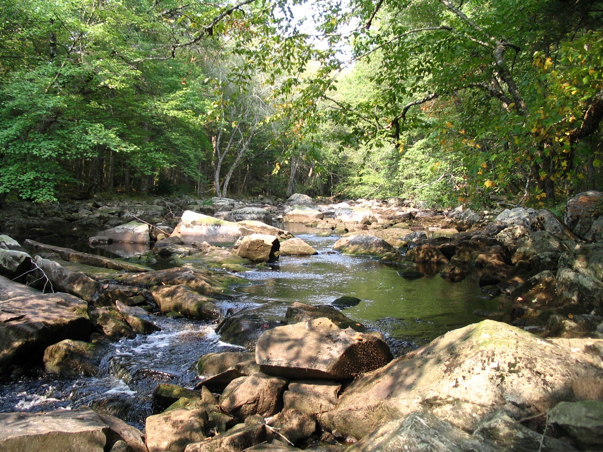 Little River showing its 'bones'! (Photo taken by Davis Bennett)